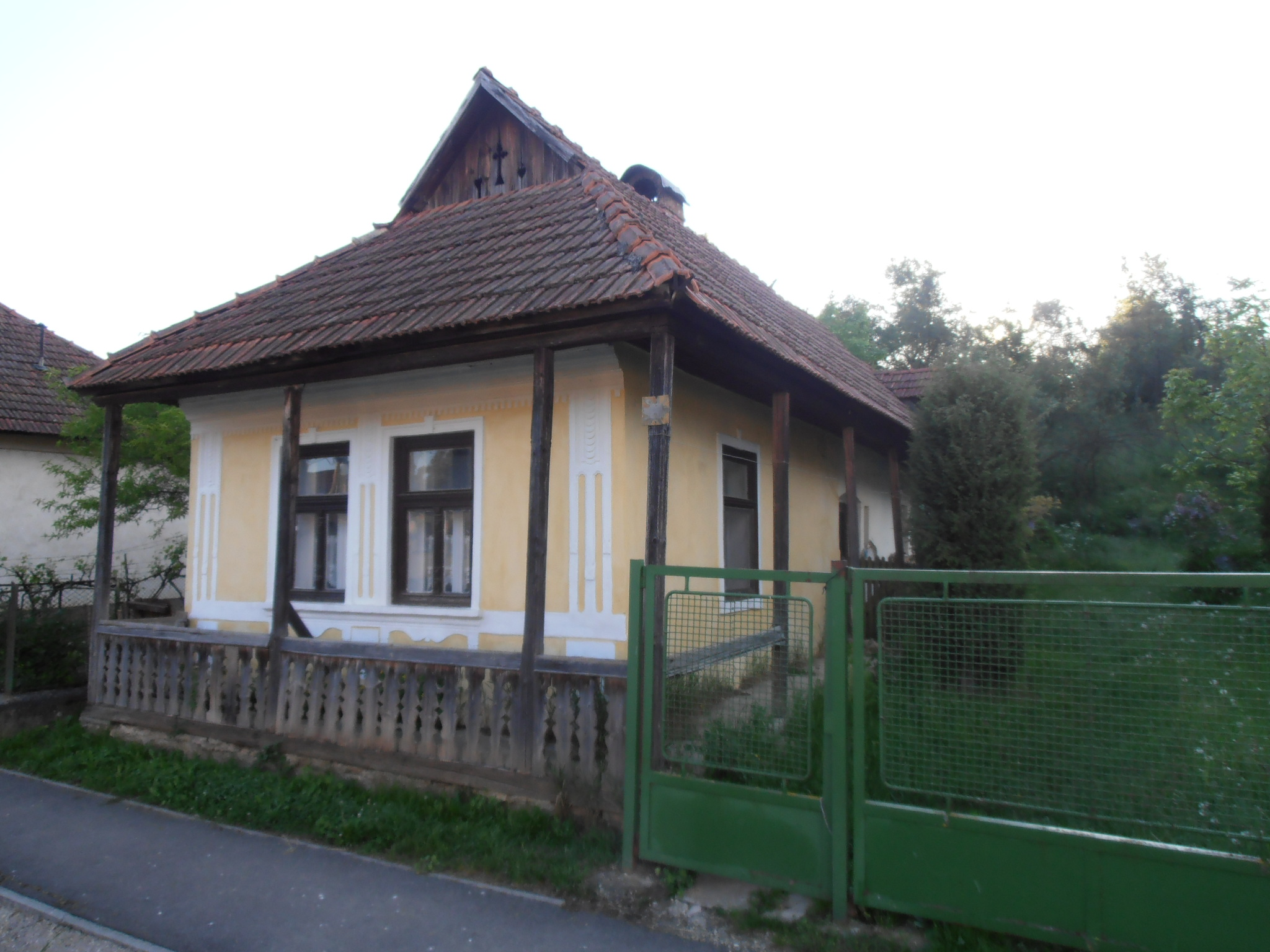 Old house in Bódvarákó, Hungary